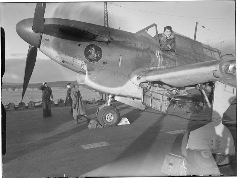 The Royal Navy during the Second World War Sub Lieutenant (A) M Bennett, RNVR, in the cockpit of his Fairey Fulmar on board HMS VICTORIOUS. Note the art work on the nose of the aircraft.